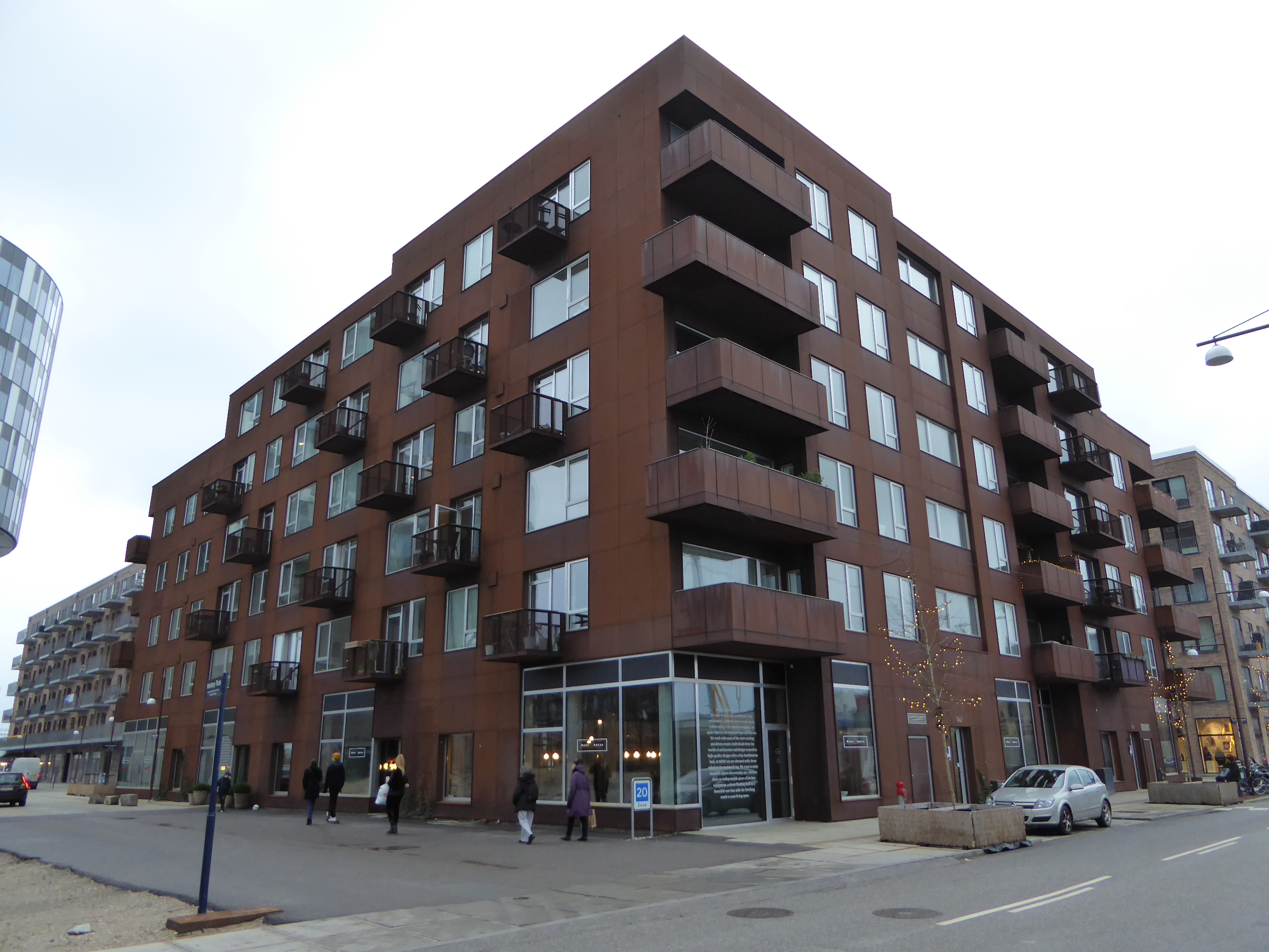 The apartment building Havnehuset at the corner of Hamborg Plads and Århusgade in Nordhavn in Copenhagen.